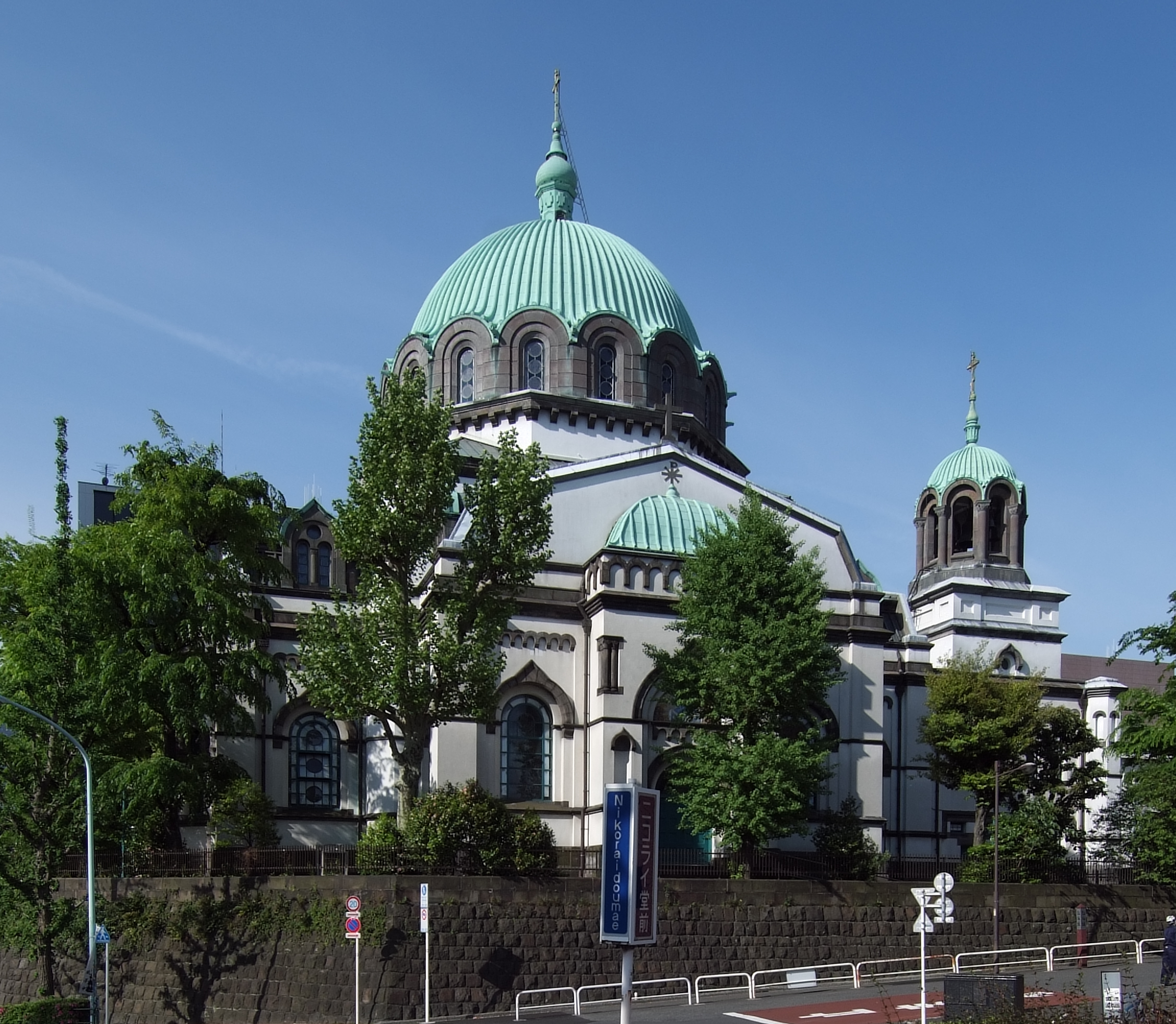 Tokyo Resurrection Cathedral, Chiyoda-ku Tokyo japan, designed by Michael A. Shchurupov & Josiah Conder in 1891.